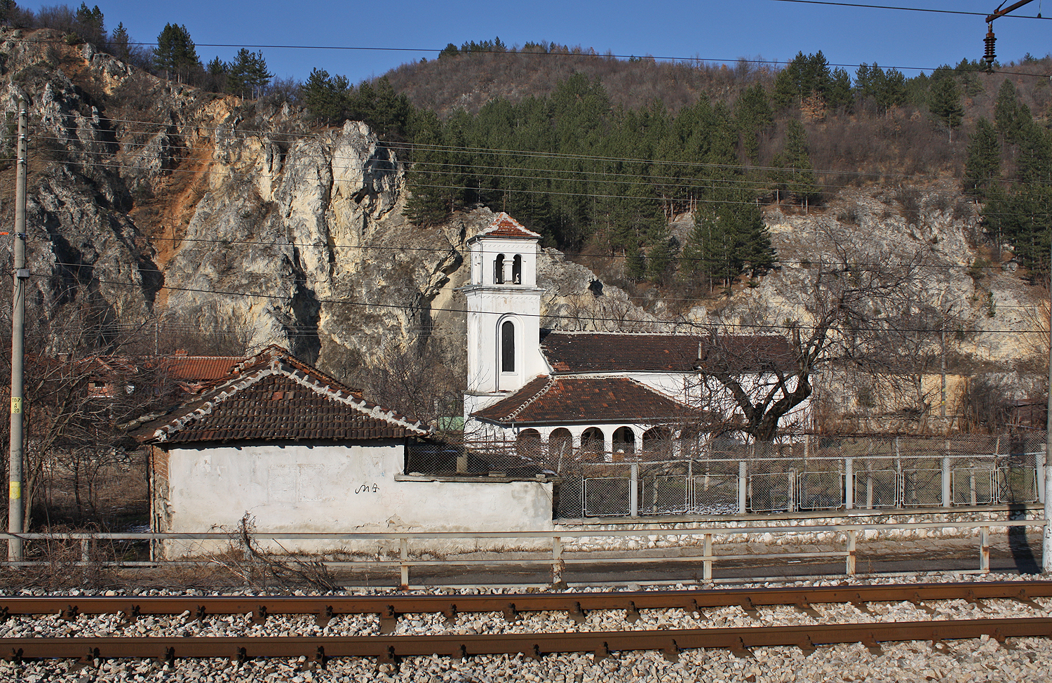 Church of St George, Momina klisura, Bulgaria